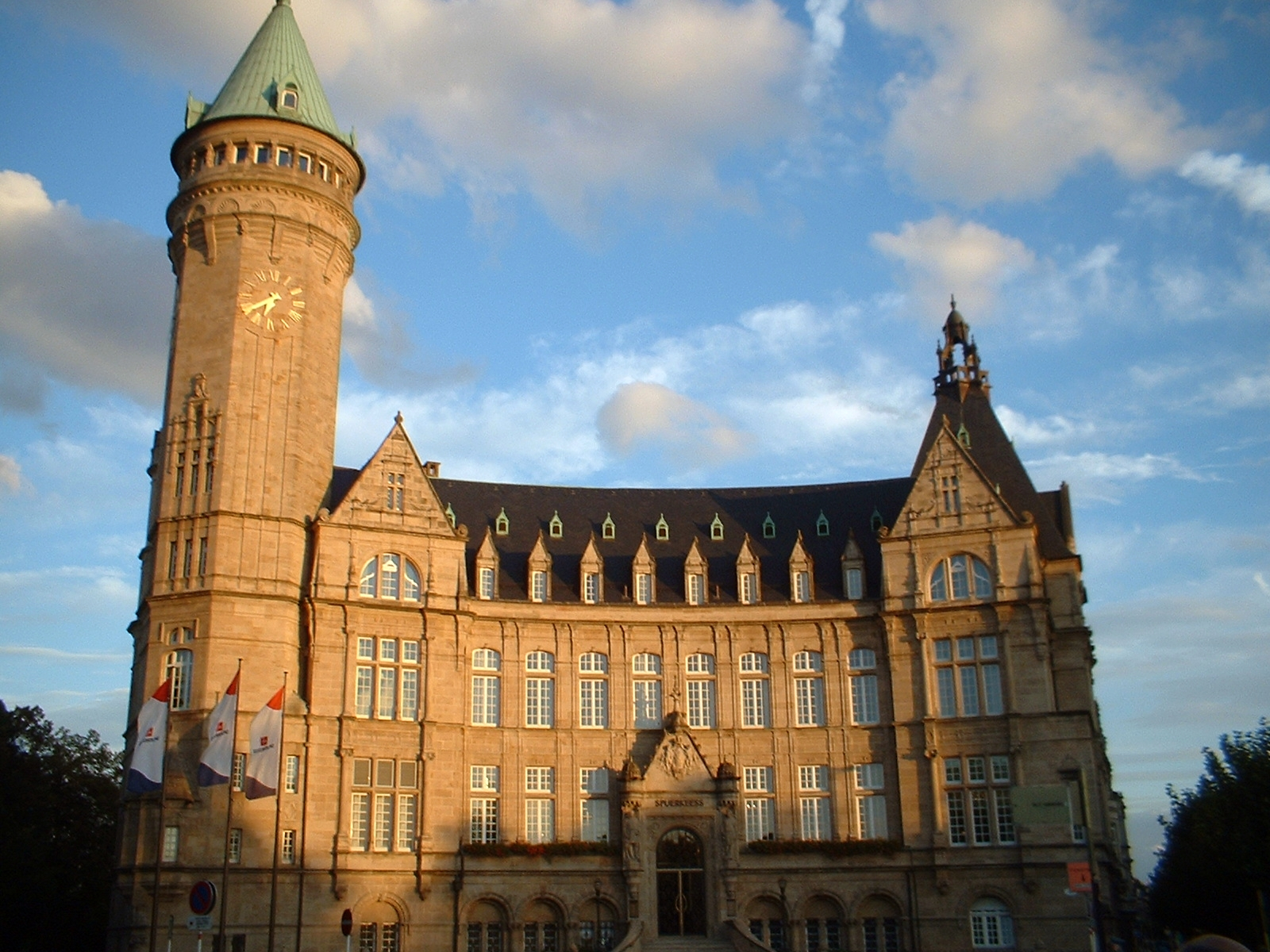 Luxembourg (City) Main Bulding of the BCEE - the former seat of the ECSC's High Authority is on the opposite on Avenue de la Liberté